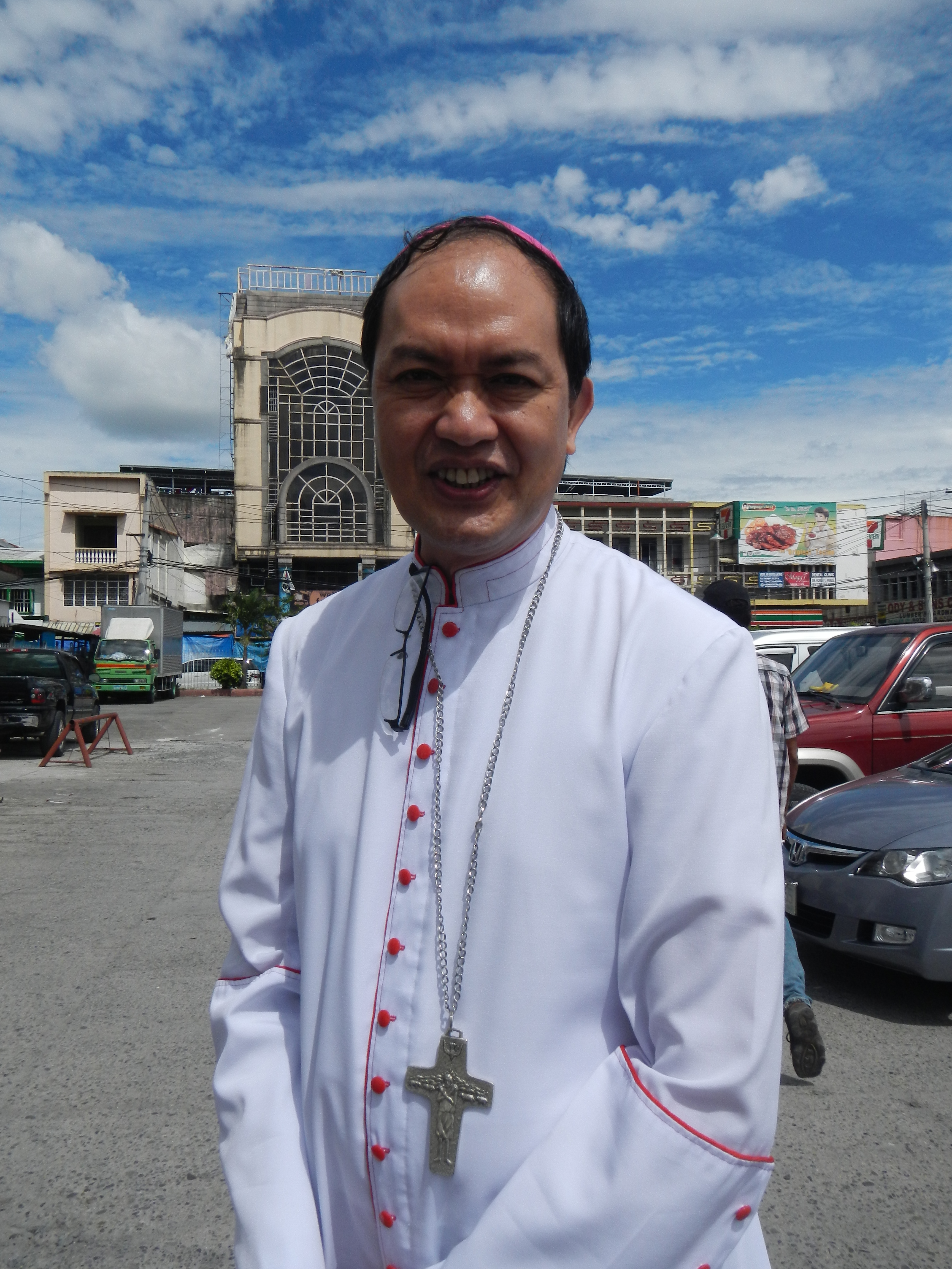 Auxiliary Bishops Pablo Virgillio David Most. Rev. Pablo Virgilio Siongco David, D.D. (Among Ambo)- Parish Priest of Holy Rosary Parish Holy Rosary Parish Church (Angeles) in the NEWLY Painted, Restoreed, Renovated (- for the October 27 Installation of Florentino Lavarias, D.D., in the) Metropolitan Cathedral of San Fernando in Pampanga - Roman Catholic Archdiocese of San Fernando - present were Governor Lilia Pineda, Mayor Edgardo Pamintuan and Mayor Edwin Santiago of Angeles City and the City of San Fernando and Mayor Marino Morales of Mabalacat City, respectively; Important Notes: Florentino Lavarias Florentino Galang Lavarias, D.D The Most Reverend Florentino Lavarias D.D. Archbishop-elect of San Fernando is the fourth and current Metropolitan Archbishop of the Roman Catholic Archdiocese of San Fernando succeeded Paciano Aniceto as the Archbishop of San Fernando. The Rite of Liturgical Reception and Canonical Possession of Florentino Lavarias as the Archbishop was held on October 27, 2014 at the Metropolitan Cathedral of San Fernando by Papal Nuncio Archbishop Giuseppe Pinto Apostolic Nunciature to the Philippines List of ambassadors to the Philippines Holy See.